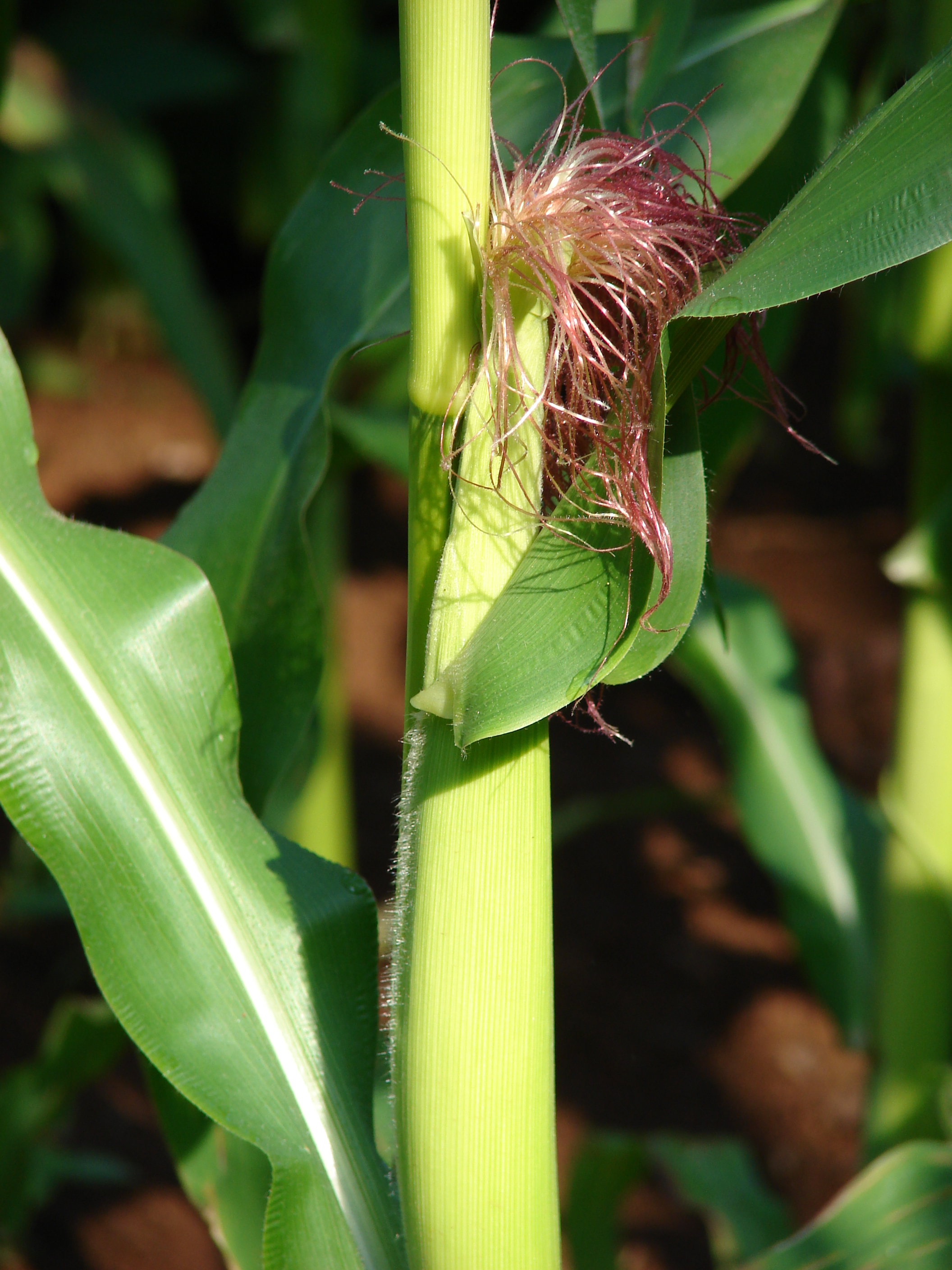 Zea mays (female flowers). Location: Maui, Makawao